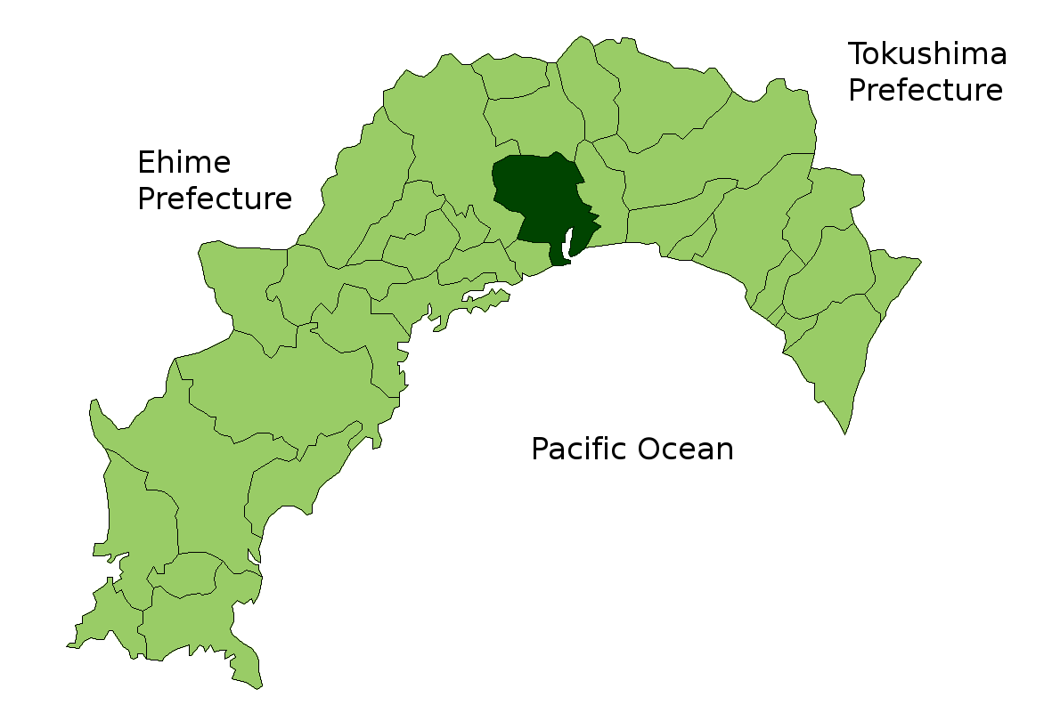 Map of Kochi Prefecture highlighting Kochi city. Borders of map as of October, 2006. (blank map used from [1]) See also Image:KochiMapCurrent.png